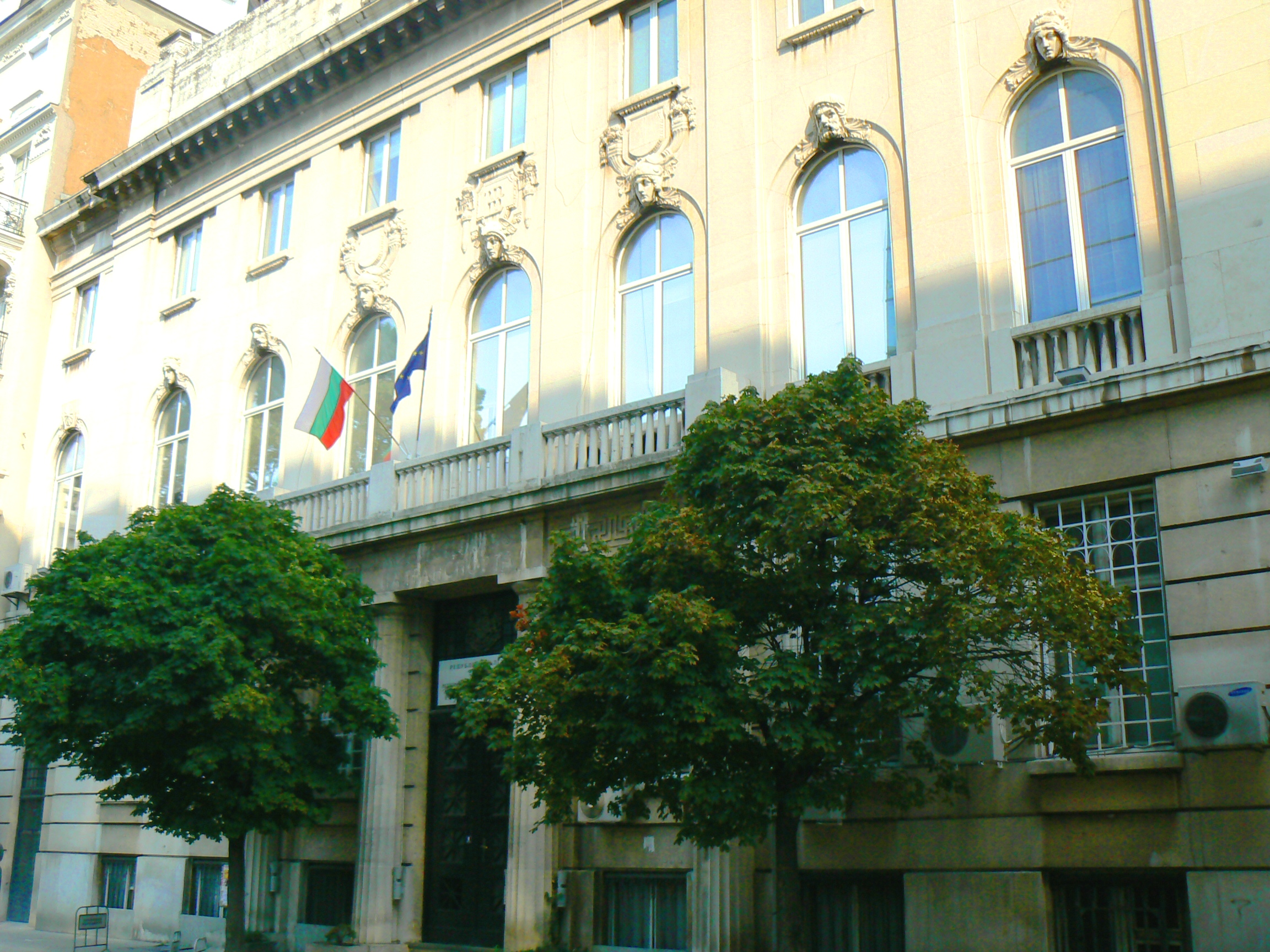 Building of the Ministry of Transportation, Bulgaria